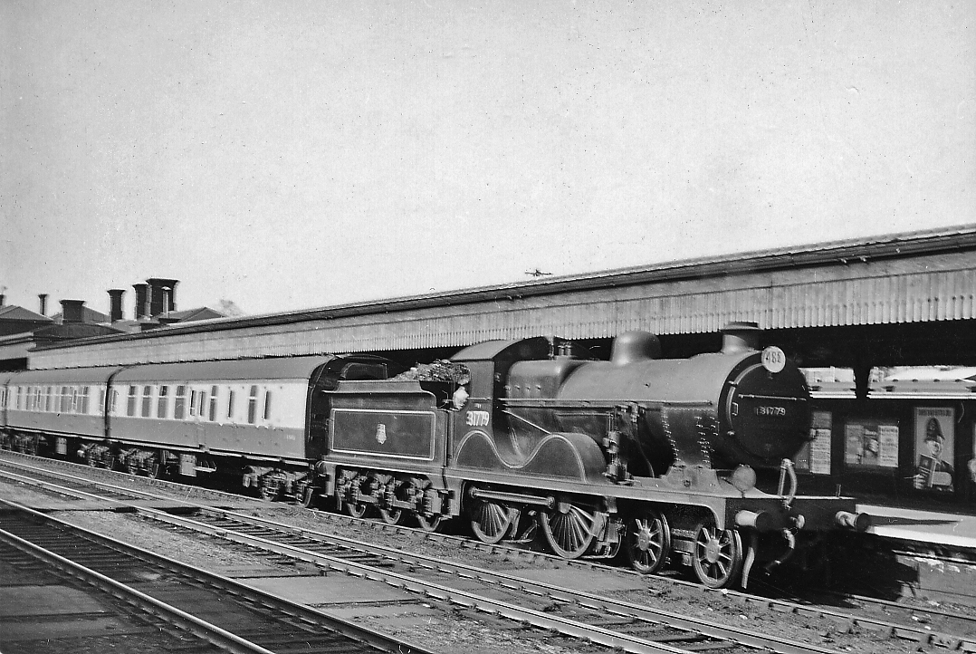 Train from Maidstone East at Ashford. A typical stopping train, the 14.24 from Maidstone East is standing at the Down main platform, headed by ex-SE&CR L class 4-4-0, designed by Wainwright but built in Germany by Borsig in 7/14 - just before World War One, lasting until 7/59.